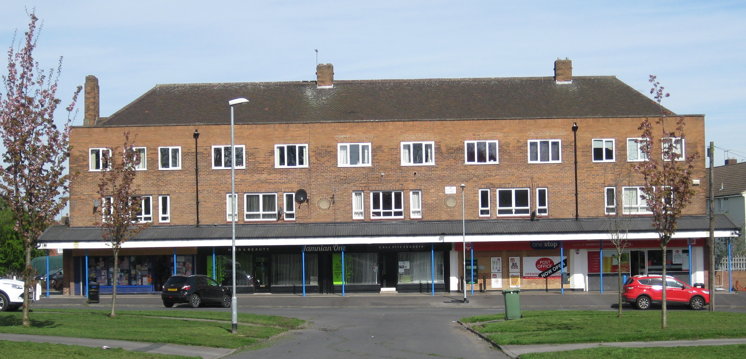 Shops on Stanks Parade, Swarcliffe, Leeds LS14. 3-storey terrace with shops on ground floor and two floors above, sharing a common roof.